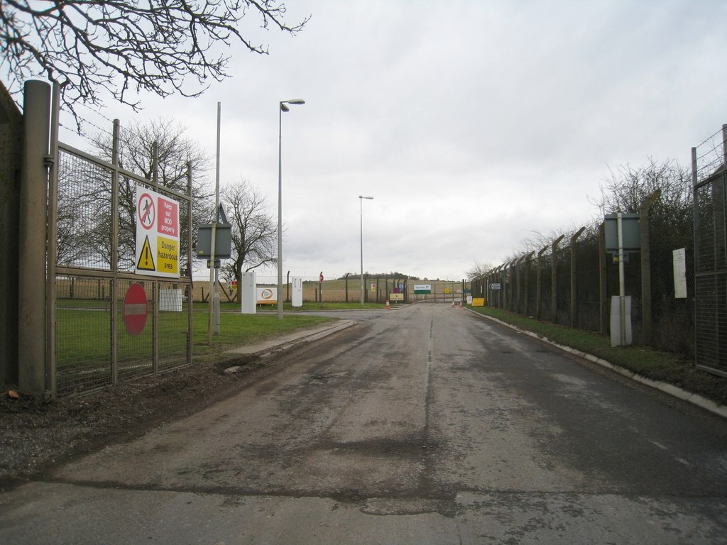 Who left the gate open? Using an old road map I forgot about all the MOD land in the area! So much for a short cut to the A30.